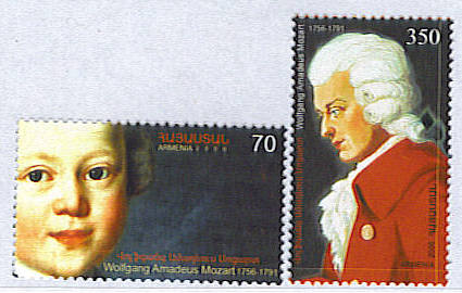 Stamp of Armenia